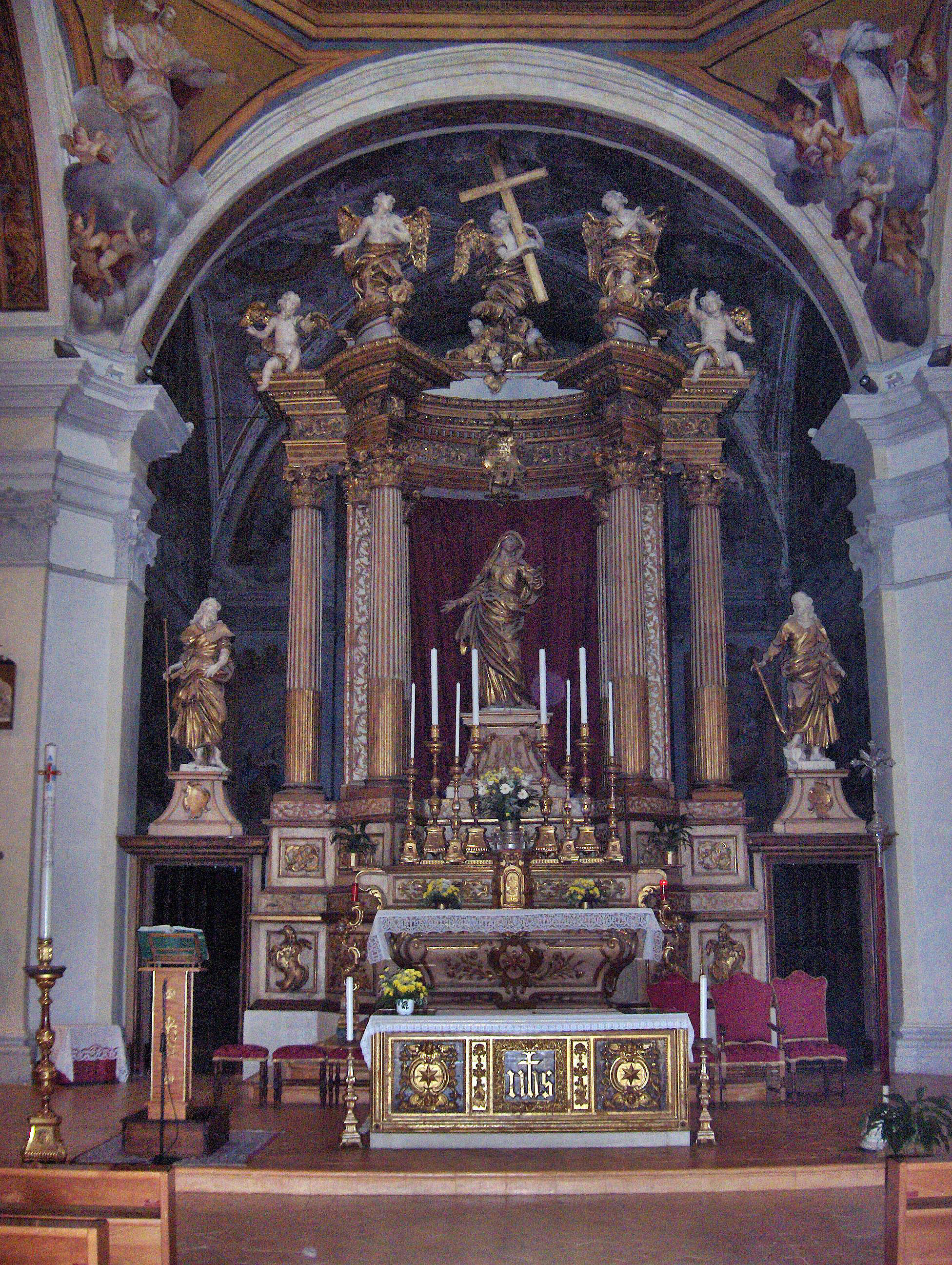 Main altar of the Church of San Giacomo, Foligno, Italy. The three statues (Virgin and SS James Major and James Minor) on the high altar are by Antonio Calcioni, 1702